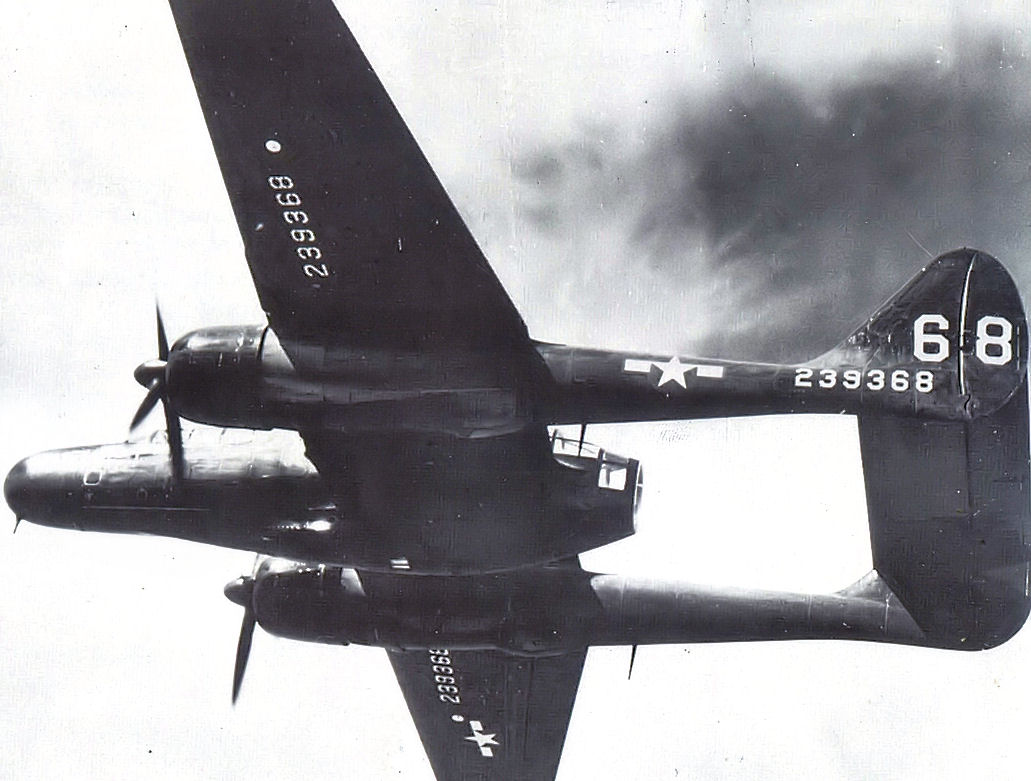 420th Night Fighter Squadron - Northrop P-61A-10-NO Black Widow 42-39368, IV Fighter Command, Hammer Field, California. This is identified as a IV Fighter Command training aircraft by having its serial numbers painted on the underside of its wings.